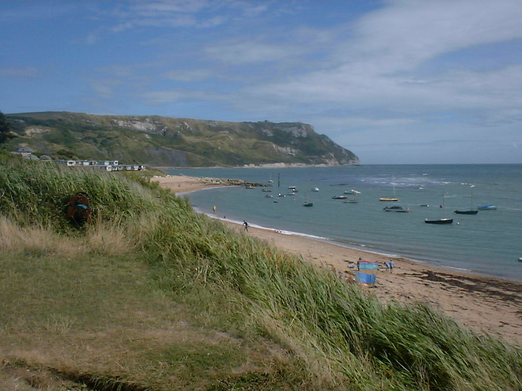 View of White Nothe from Ringstead, England. Photograph by Jonathan Bowen, 8 August 2001.